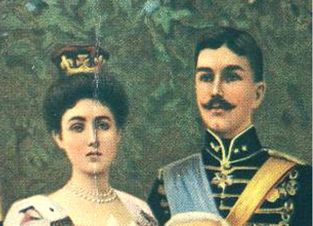 Princess Margareta & Prince Gustaf Adolf of Sweden, Duke & Duchess of Scania